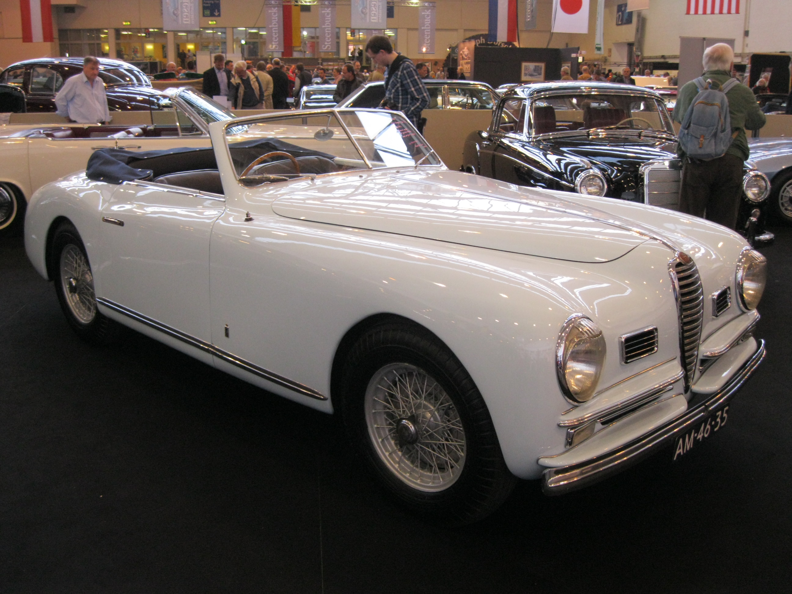 Wonderful restrained Pininfarina tourer spotted at Techno Classica Essen in March 2012.